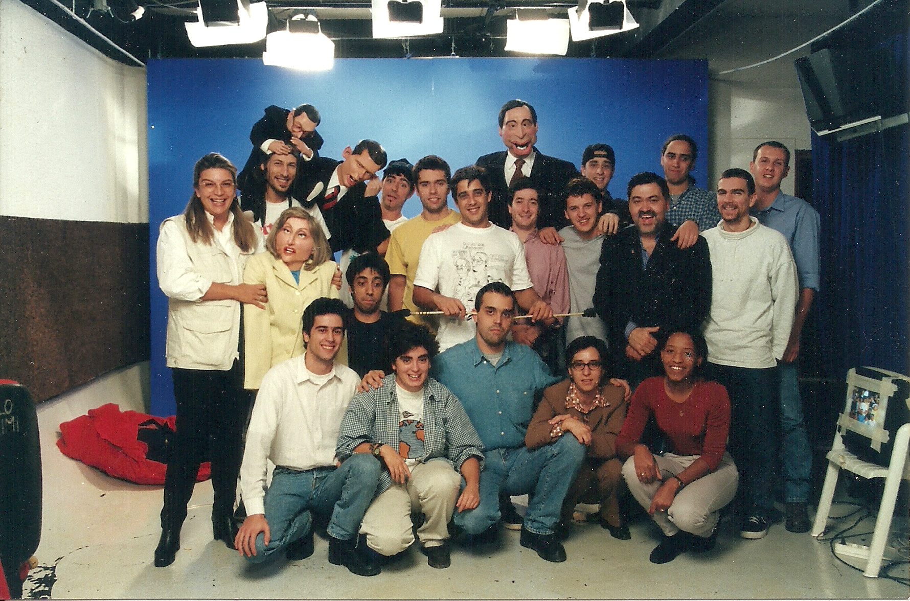 João Canto e Castro com a equipa da Mandala